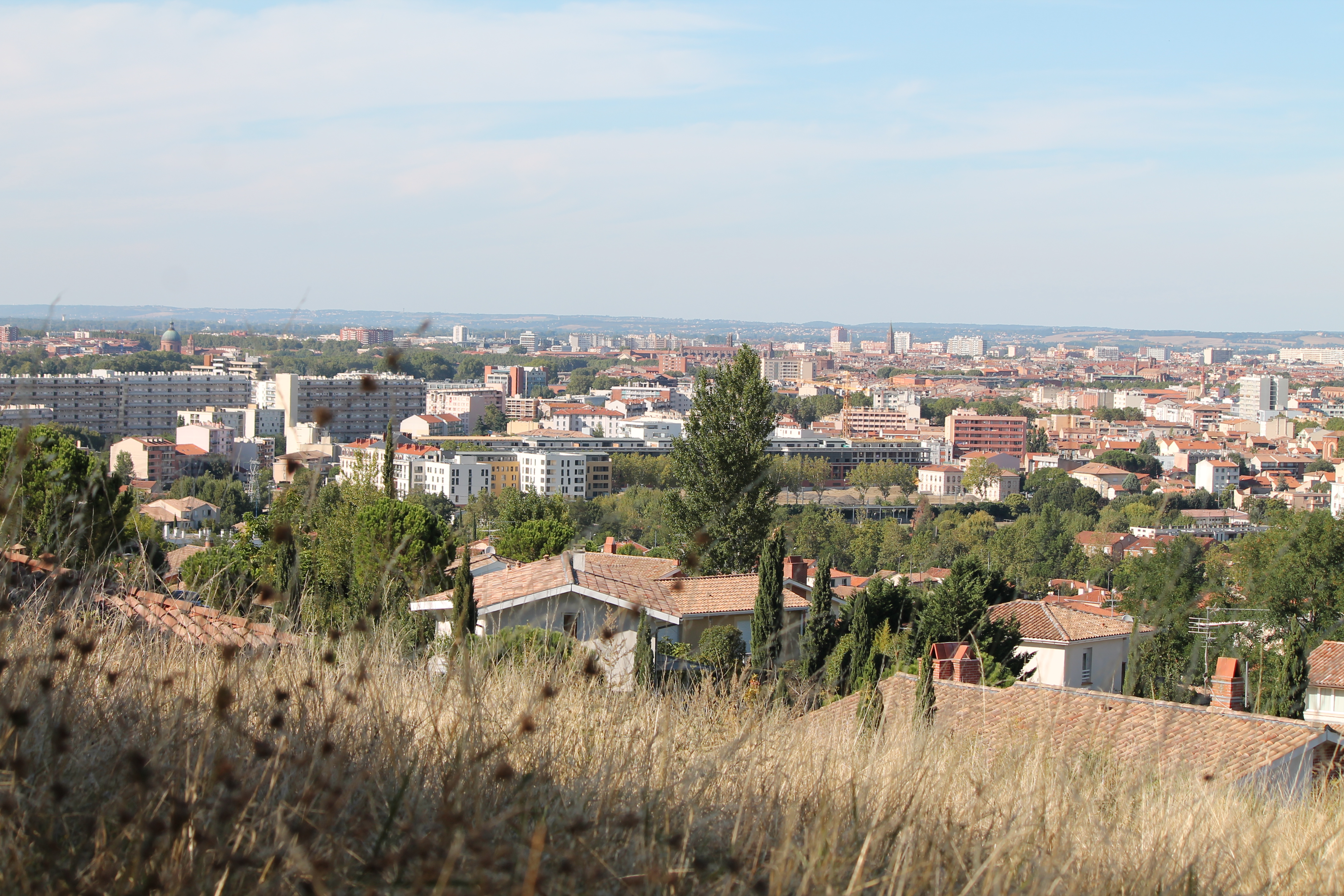 Toulouse from Pech-David hill.